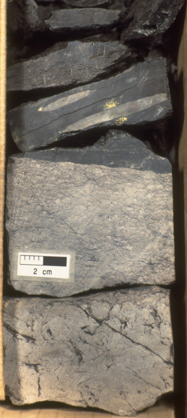 Thin coal seam with underclay pervasively churned by roots as cored from the Hibernia Formation at the Hibernia K-14 well in the Hibernia oilfield, Jeanne d'Arc Basin, Grand Banks of Newfoundland.